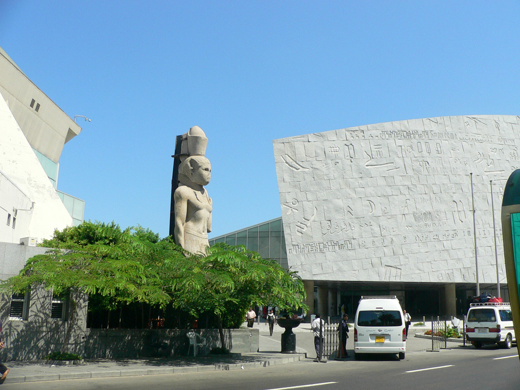 BA outer view, Alexandria, Egypt.